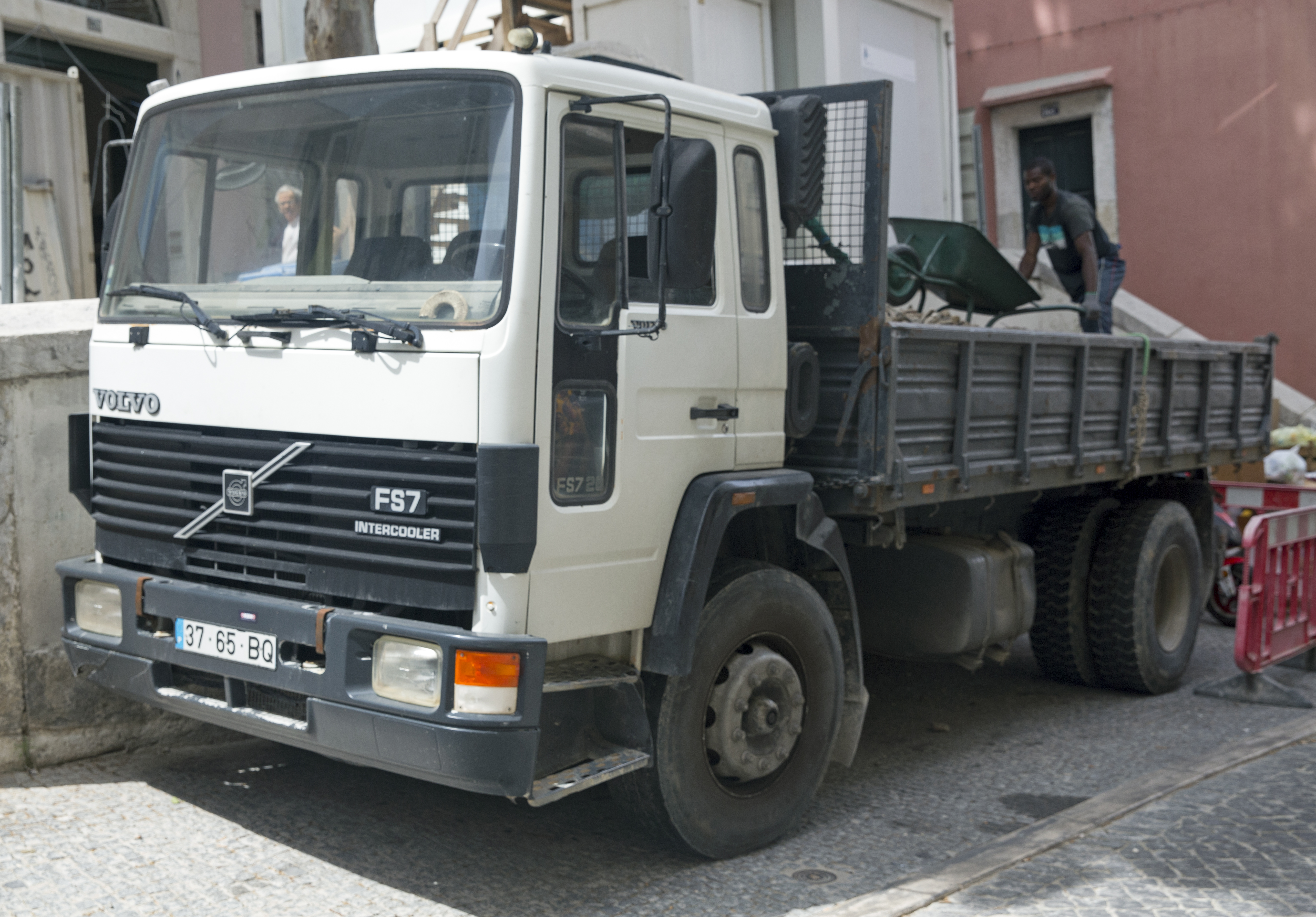 A Volvo FS7 20 truck in Lisbon, Portugal.